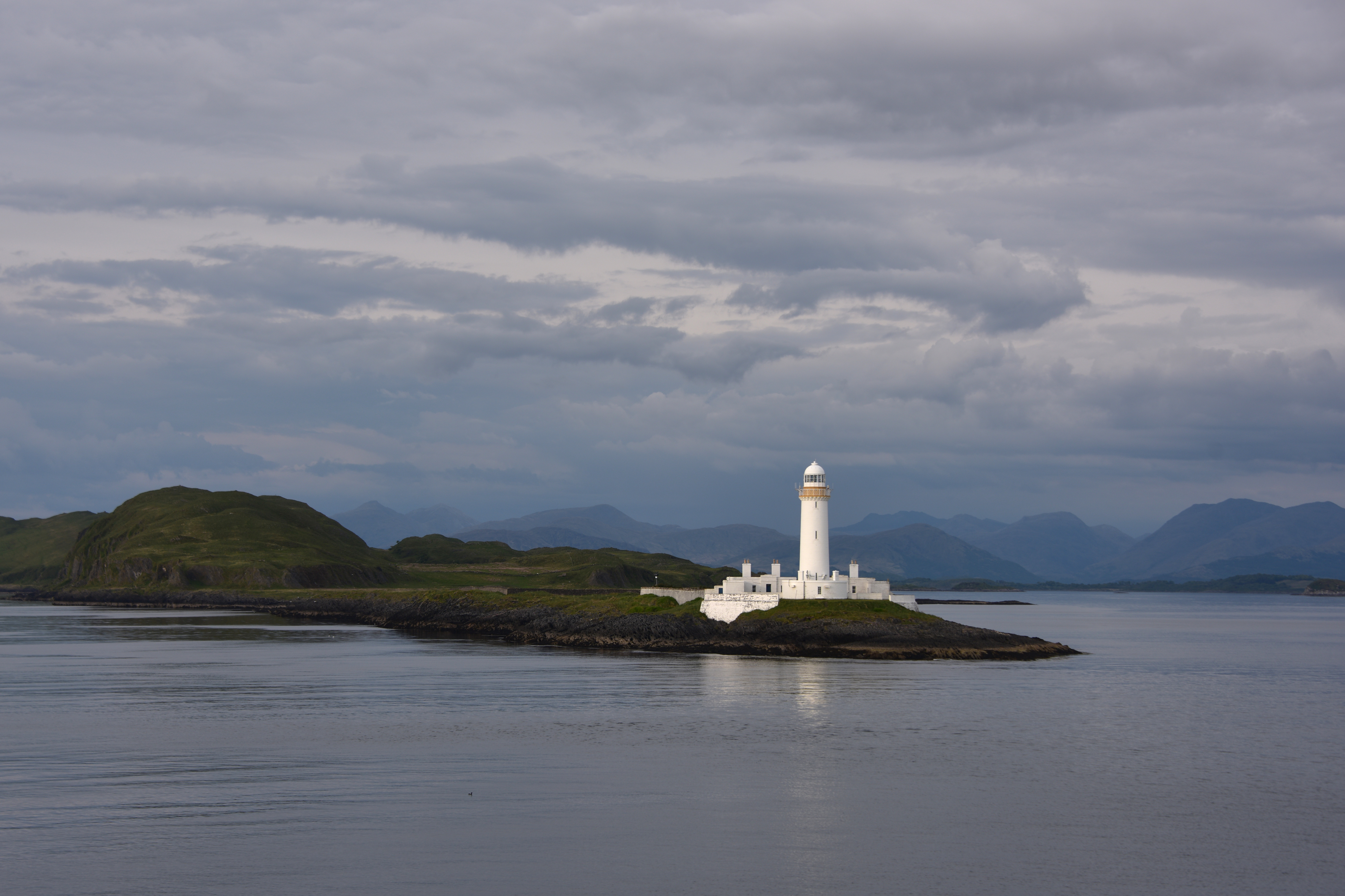 A small islet in the Inner Hebrides with a lighthouse on it.